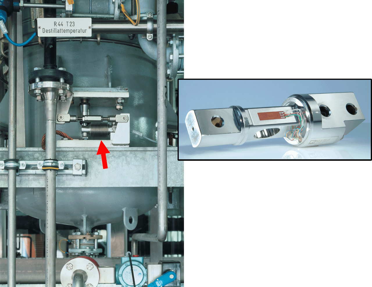 application of weighing cell in industrial environment